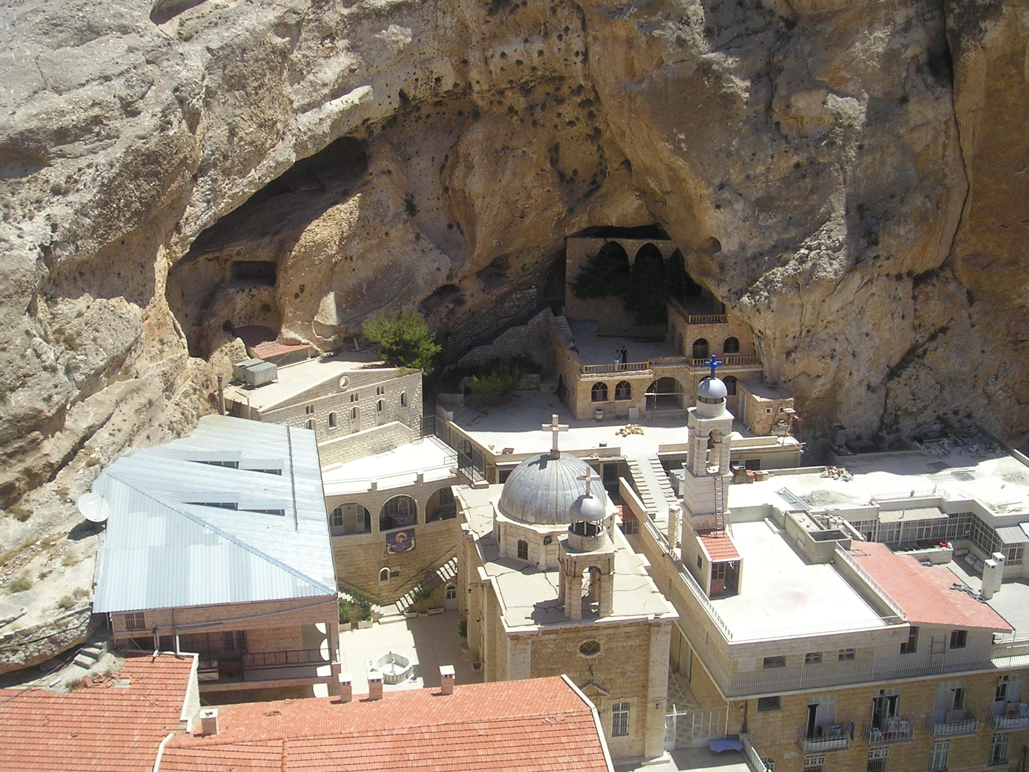 Maaloula, Syria: view of the St. Thecla monastery from the top of the rock. In the cove above the monastery there is a shrine of St. Thecla.